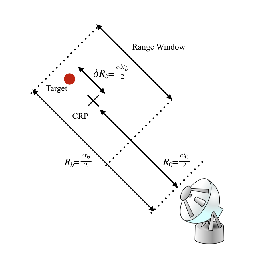 Scenario for stretch processing analysis